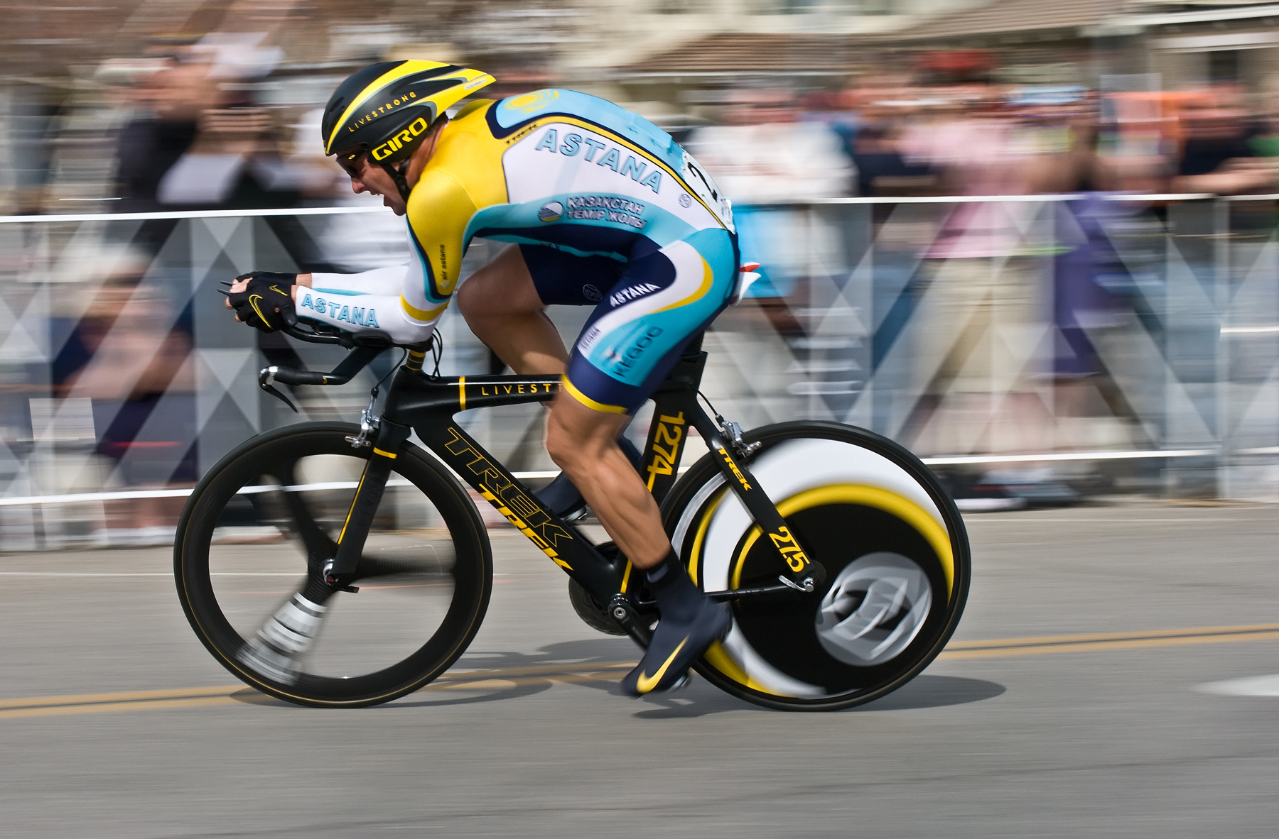 Lance returns to pro cycling, finishing seventh over all. Shown here during the Solvang time trial from curbside in Los Olivos, 2-20-2009